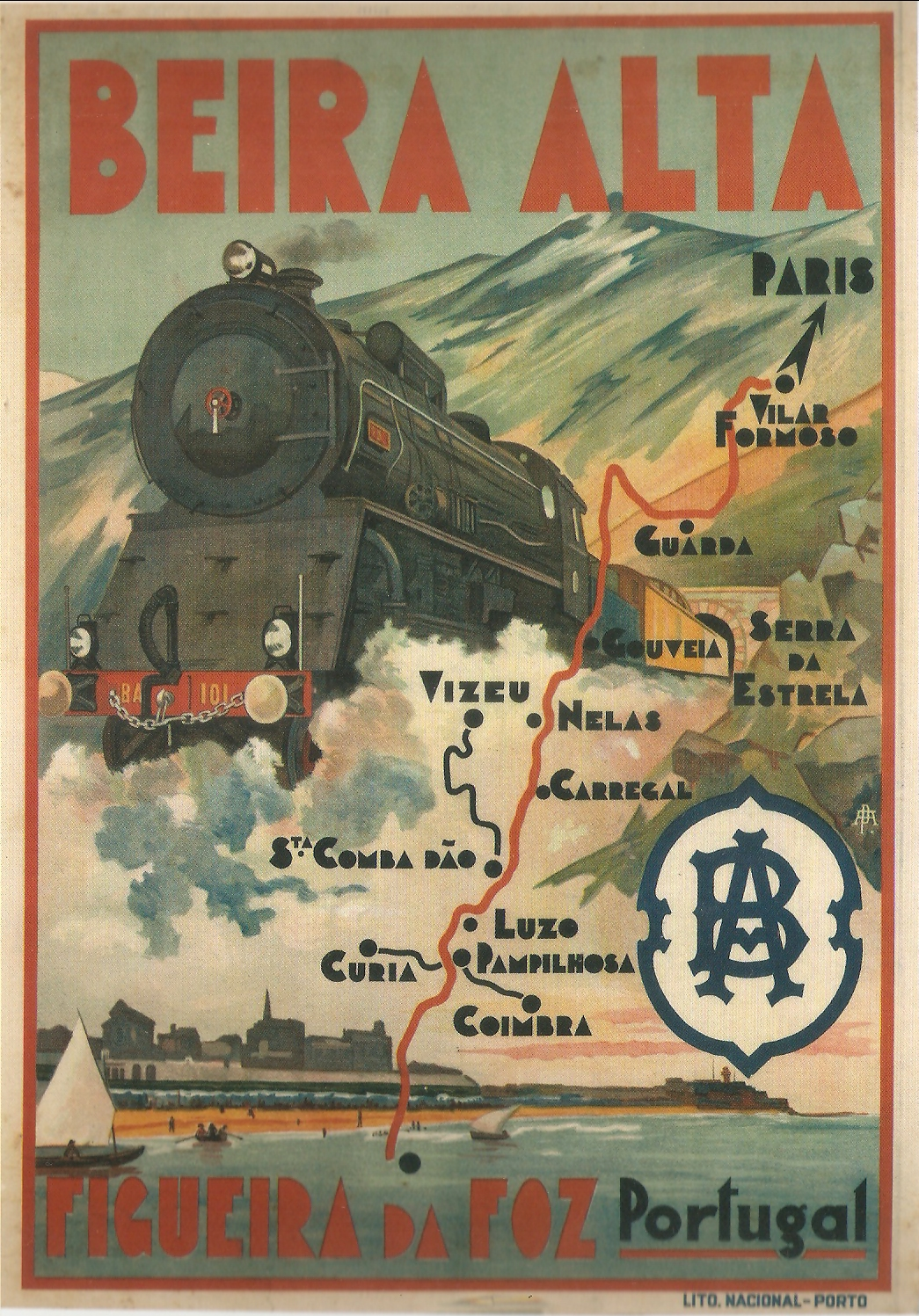 Advertisement poster of the Linha da Beira Alta (Beira Alta Railway), in Portugal.